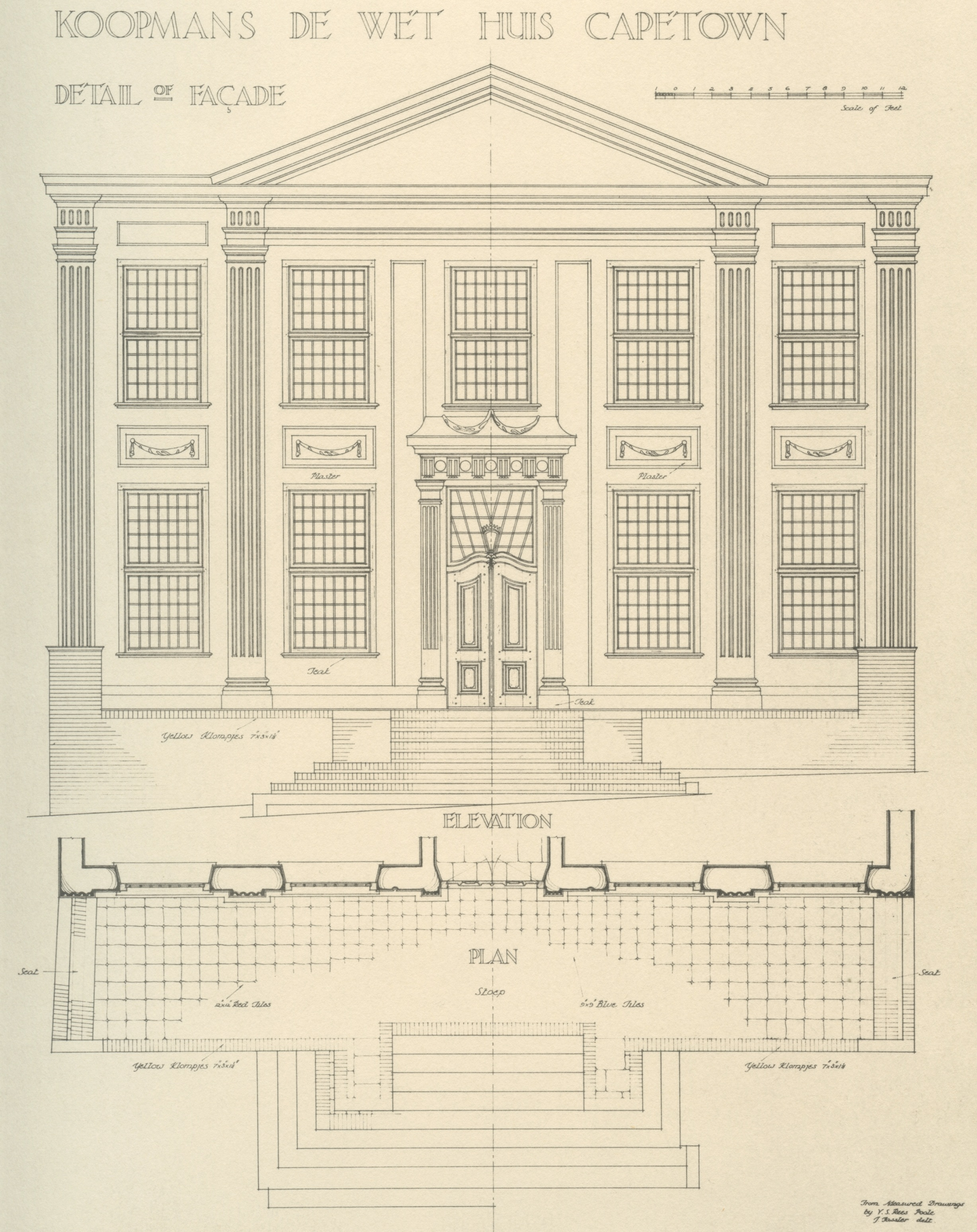 This architectural drawing of the Koopmans-de Wet House facade was first published in 1933 by G. E. Pearse, Associate of the Royal Institute of British Architects, Professor Emeritus in Architecture, University of the Witwatersrand.